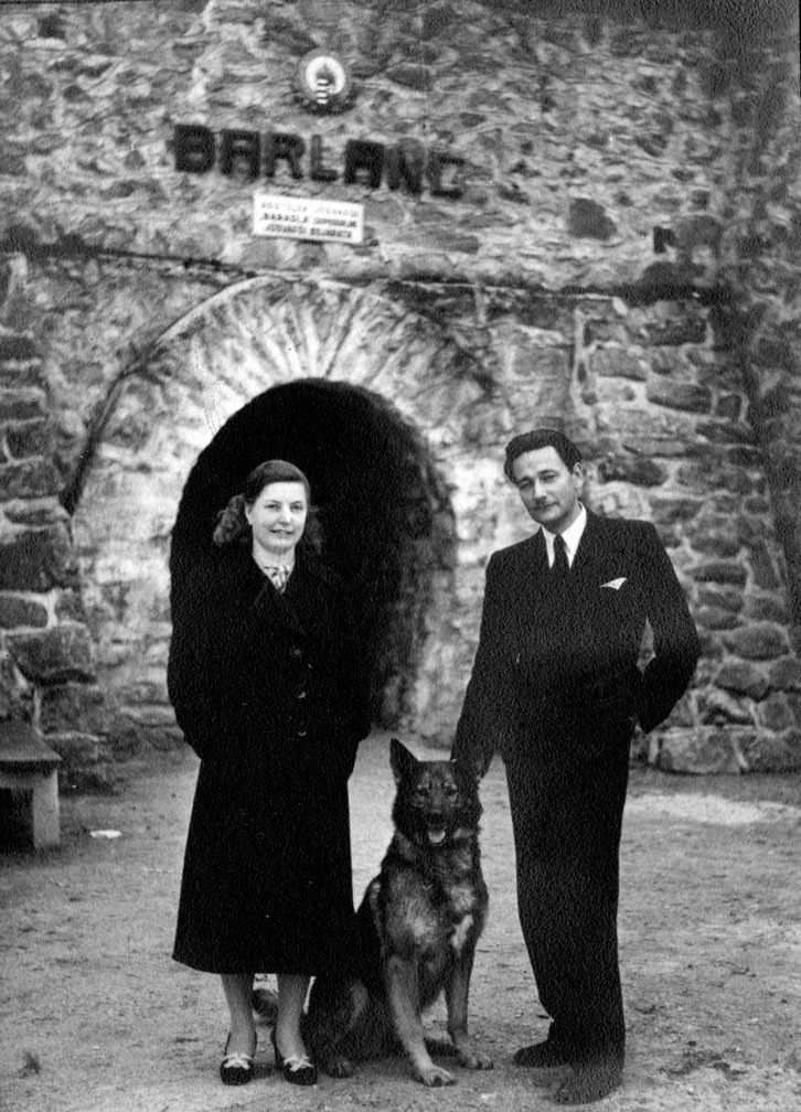 Hubert Kessler with his first wife at Baradla Cave